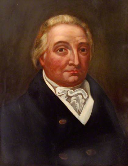 Portrait of John Harriott (1745–1817), English mariner and magistrate.